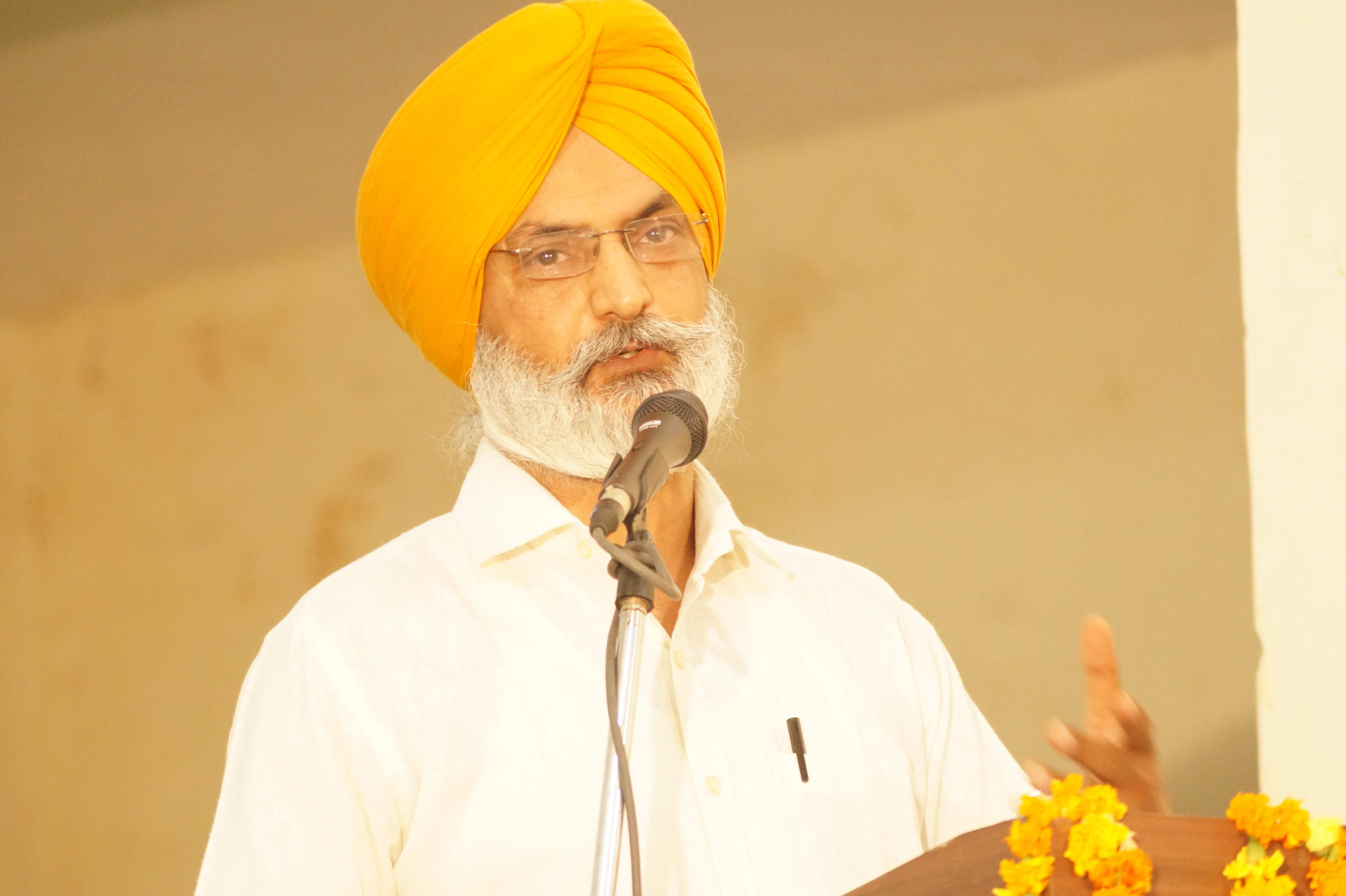 Jaswant Singh Zafar - a Punjabi poet